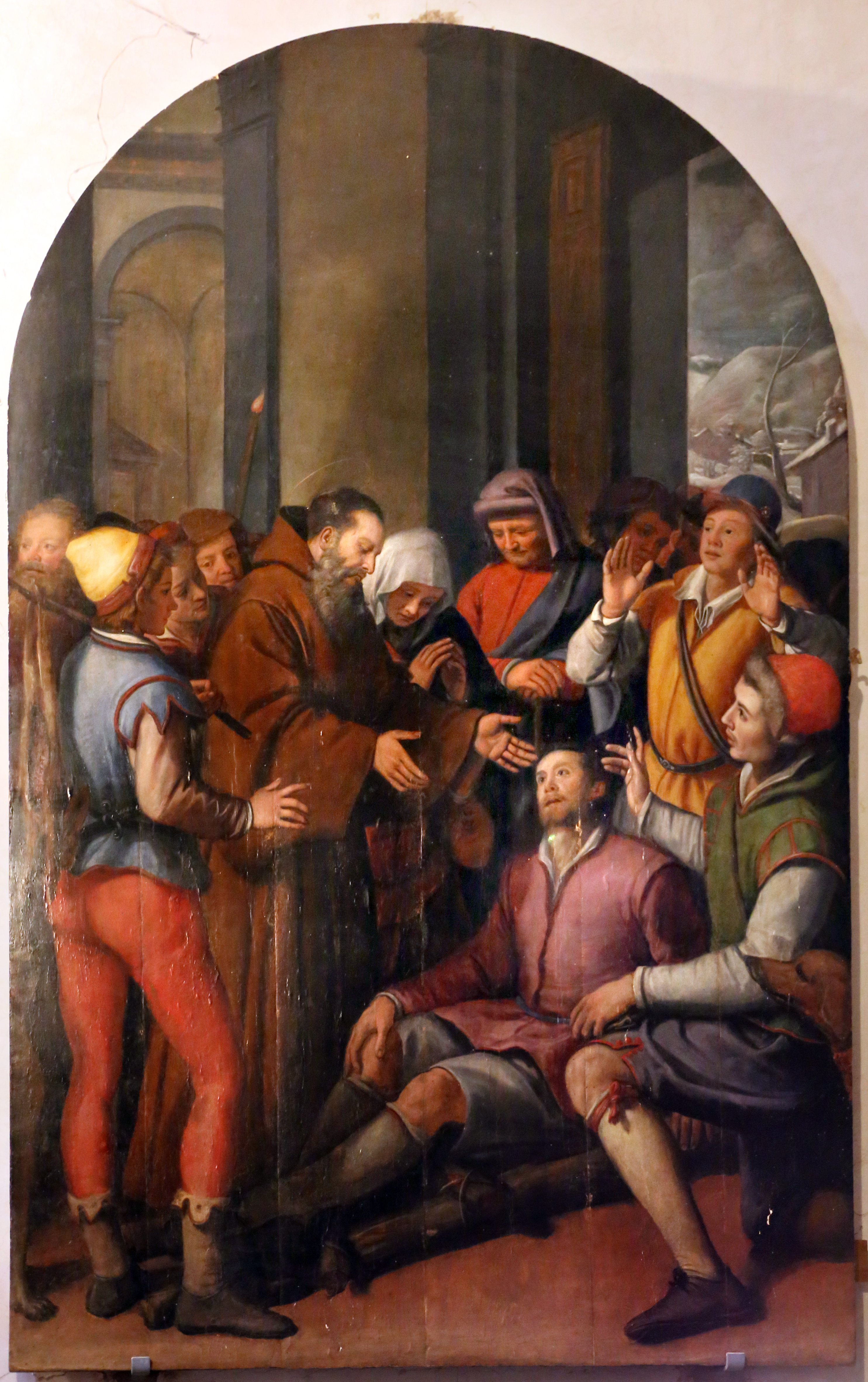 San Giuseppe (Florence) - Interior